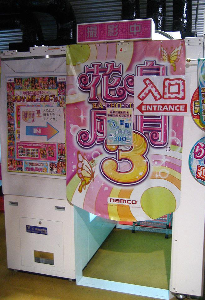 The entrance to a purikura photo booth in Fukushima City, Japan. Picture was taken with a Canon Power Shot SD450 Digital Elph camera and modified using a Paint Shop program on a laptop computer.